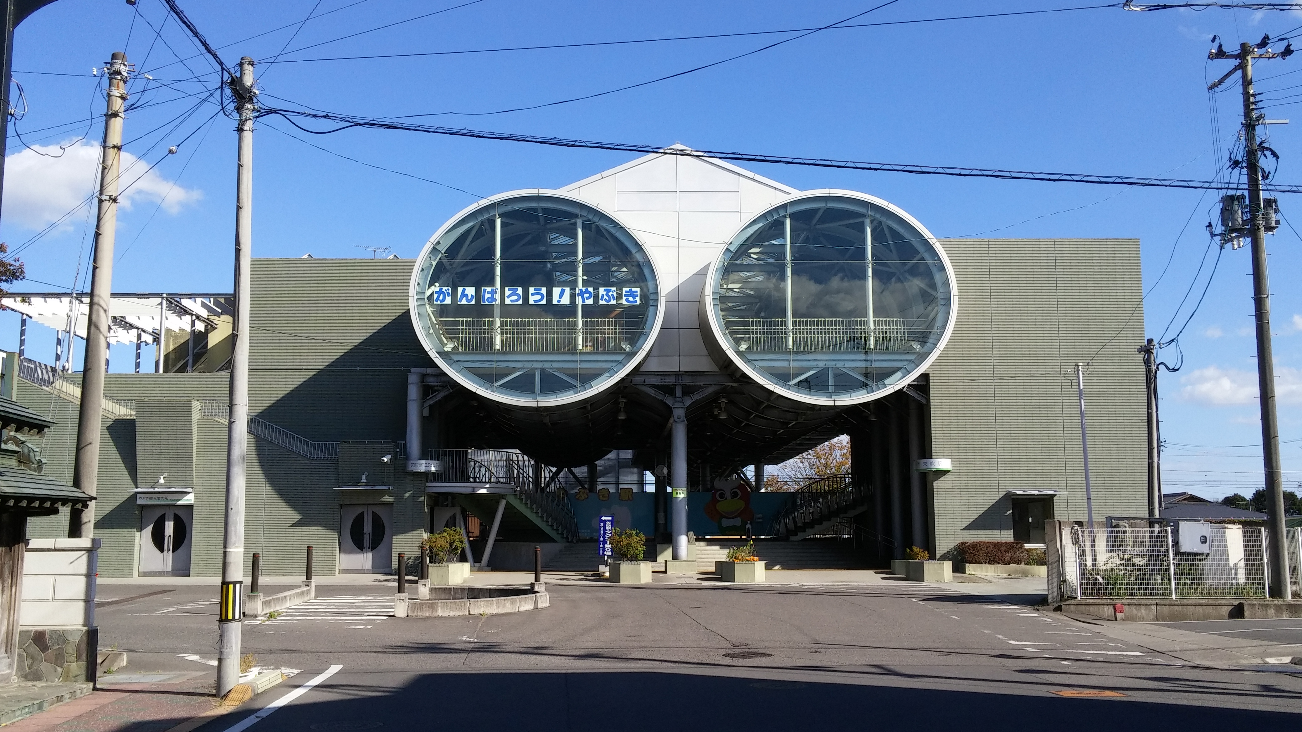 Yabuki Station in Fukushima, Japan